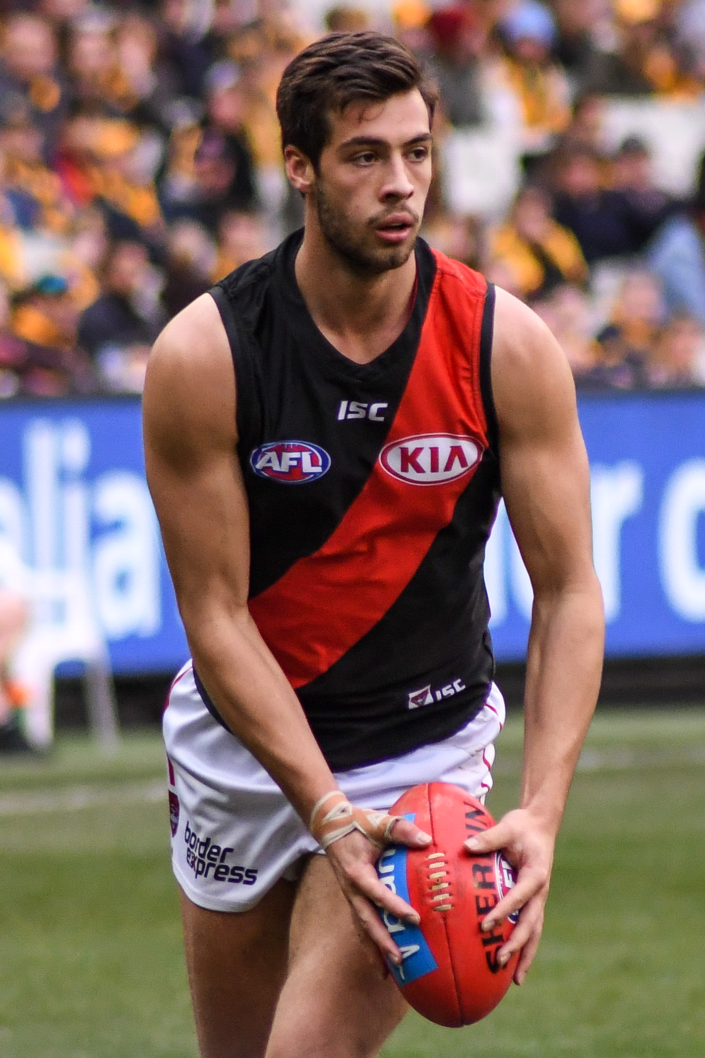 Kyle Langford of Essendon during the 2018 AFL round 20 match between Hawthorn and Essendon at the Melbourne Cricket Ground on Saturday, 4 August 2018 in Melbourne, Victoria.